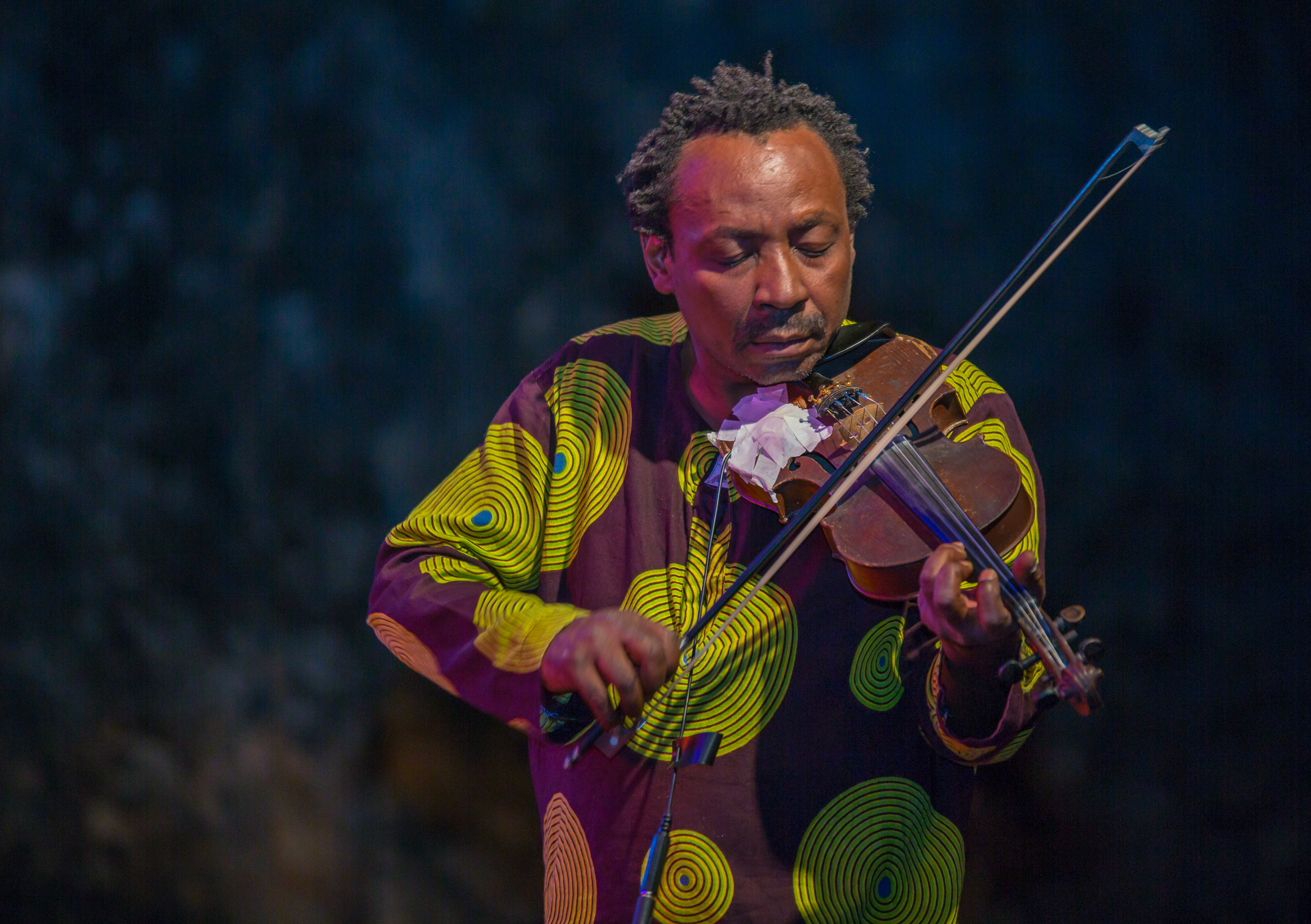 This is an image from Tanzania